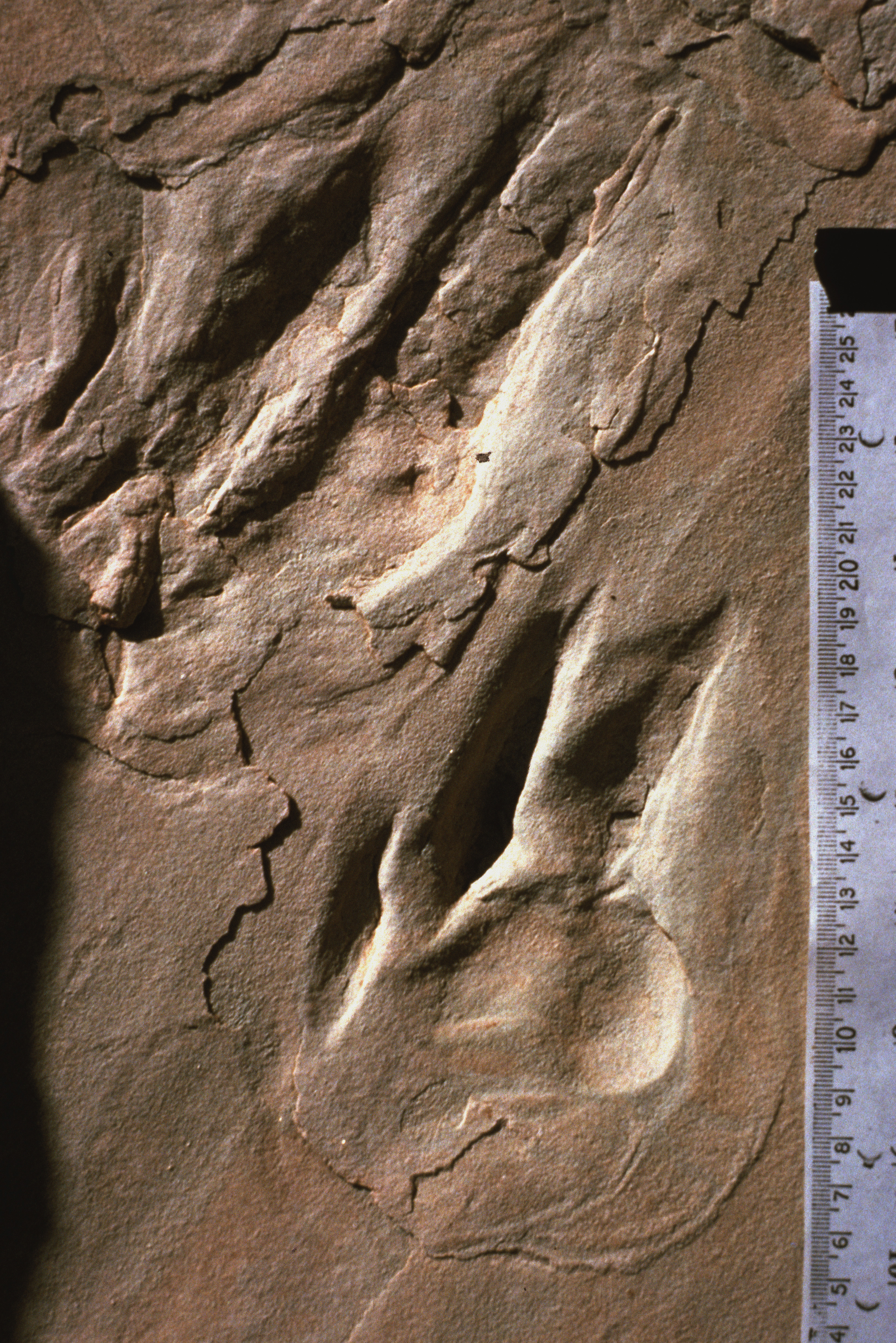 Vertebrate tracks known as Chelichnus gigas from the Coconino Sandstone in Grand Canyon.